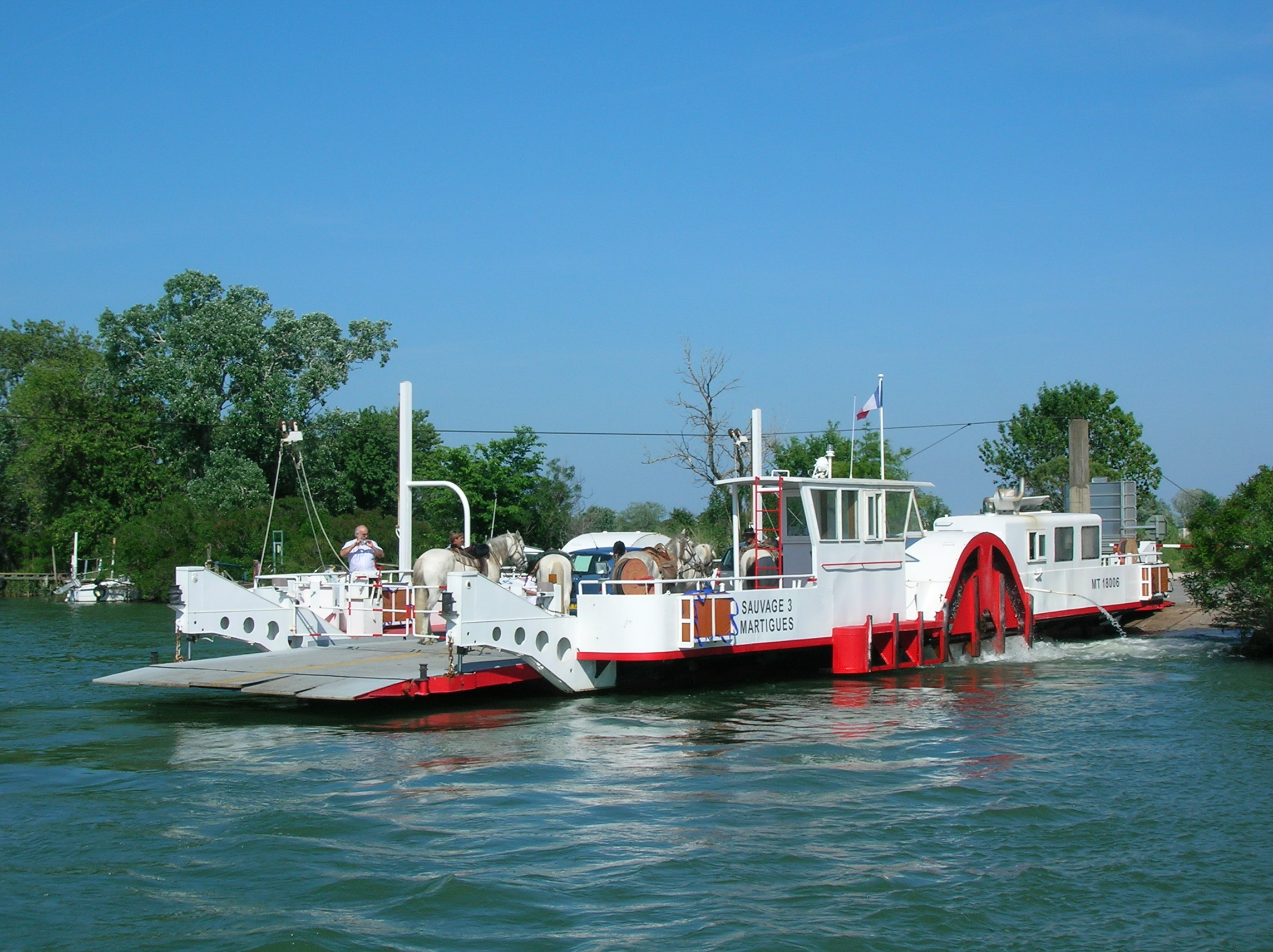 Barge used to cross "the little Rhône" river in Camargue (France).